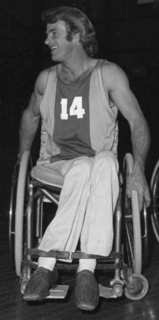 Terry Mason Circa 1976